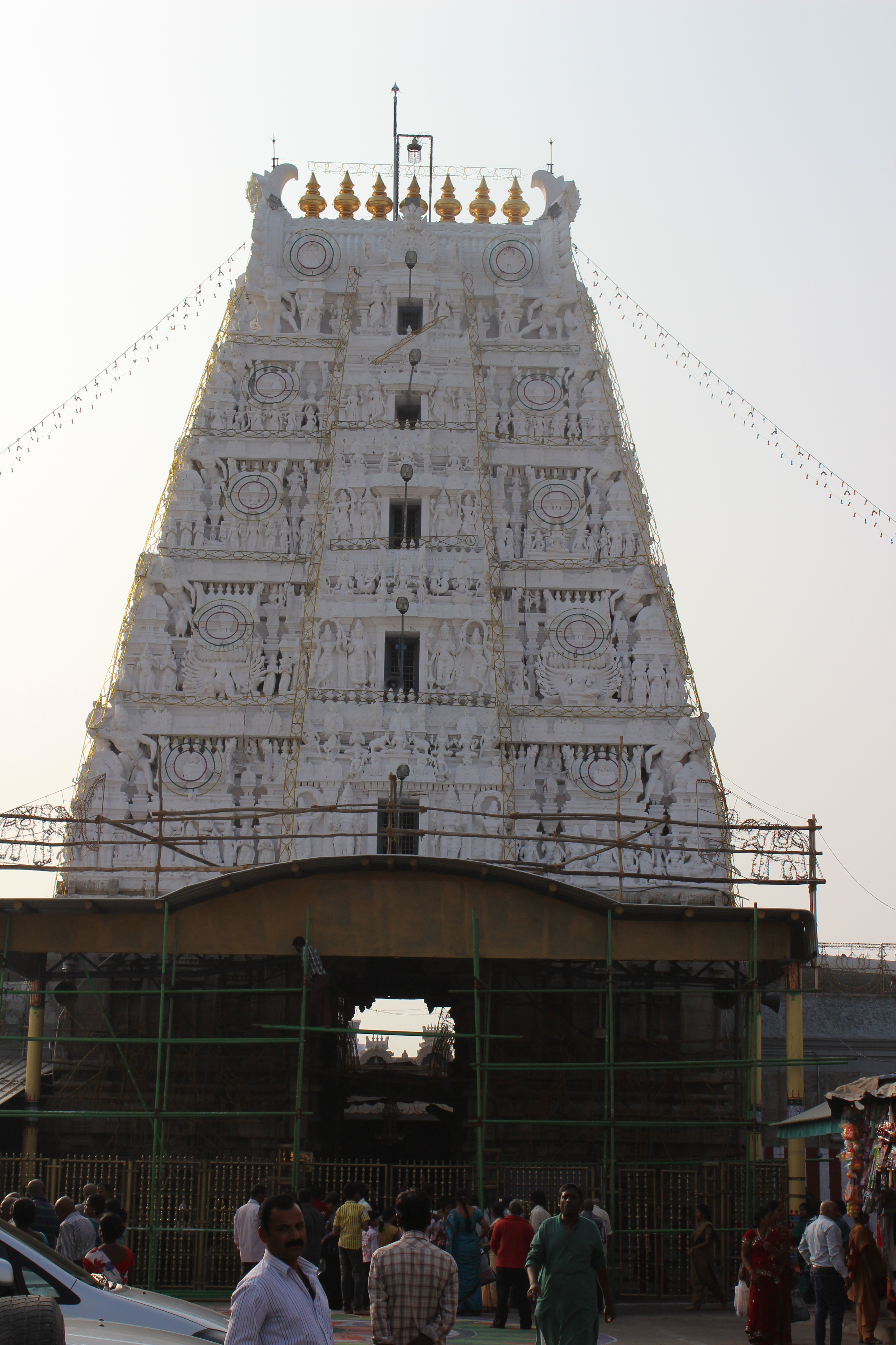 Thiruchanur